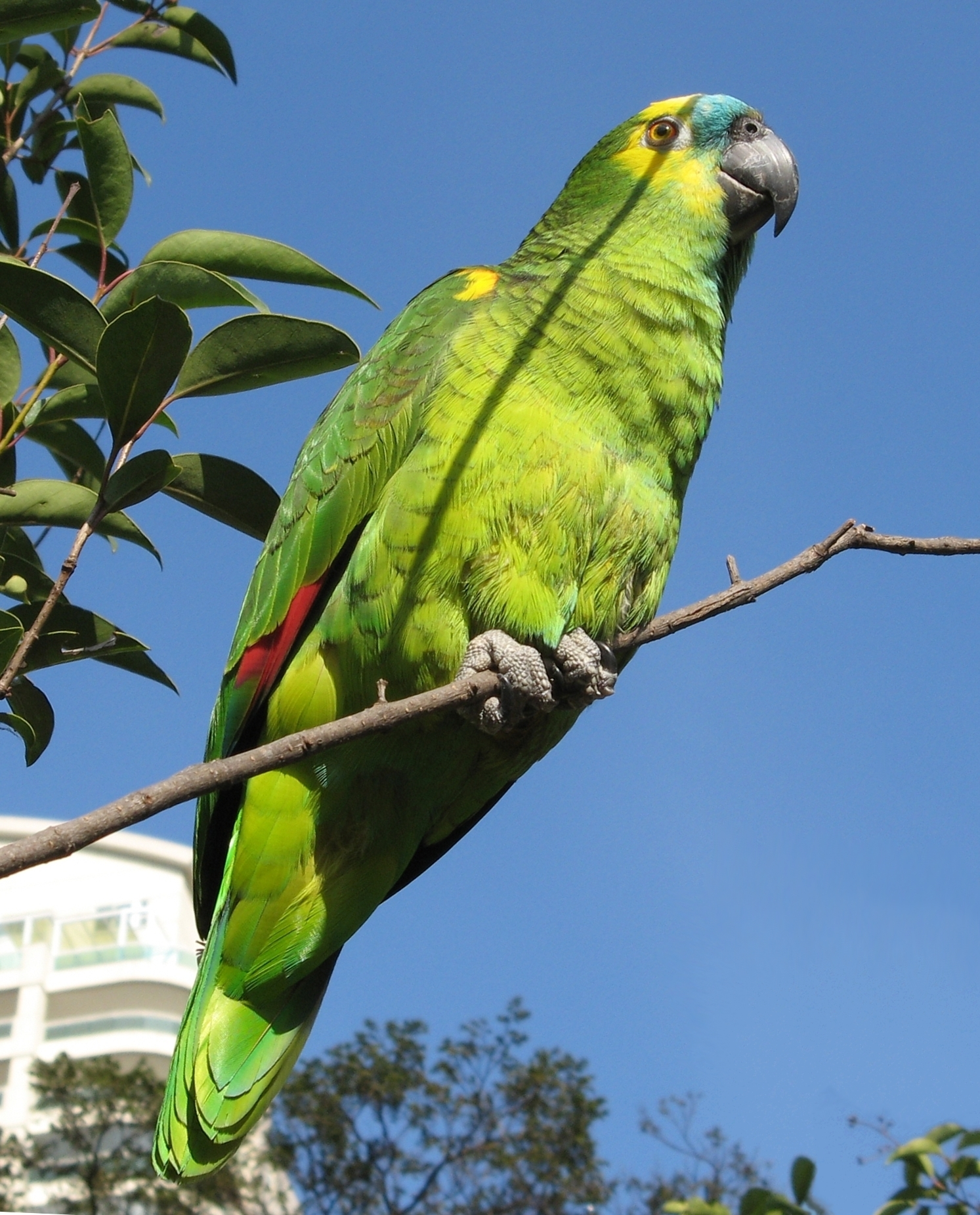 Blue-fronted Amazon (Amazona aestiva) in a tree in Brazil. An individual from the feral population in São Paulo, Brazil.